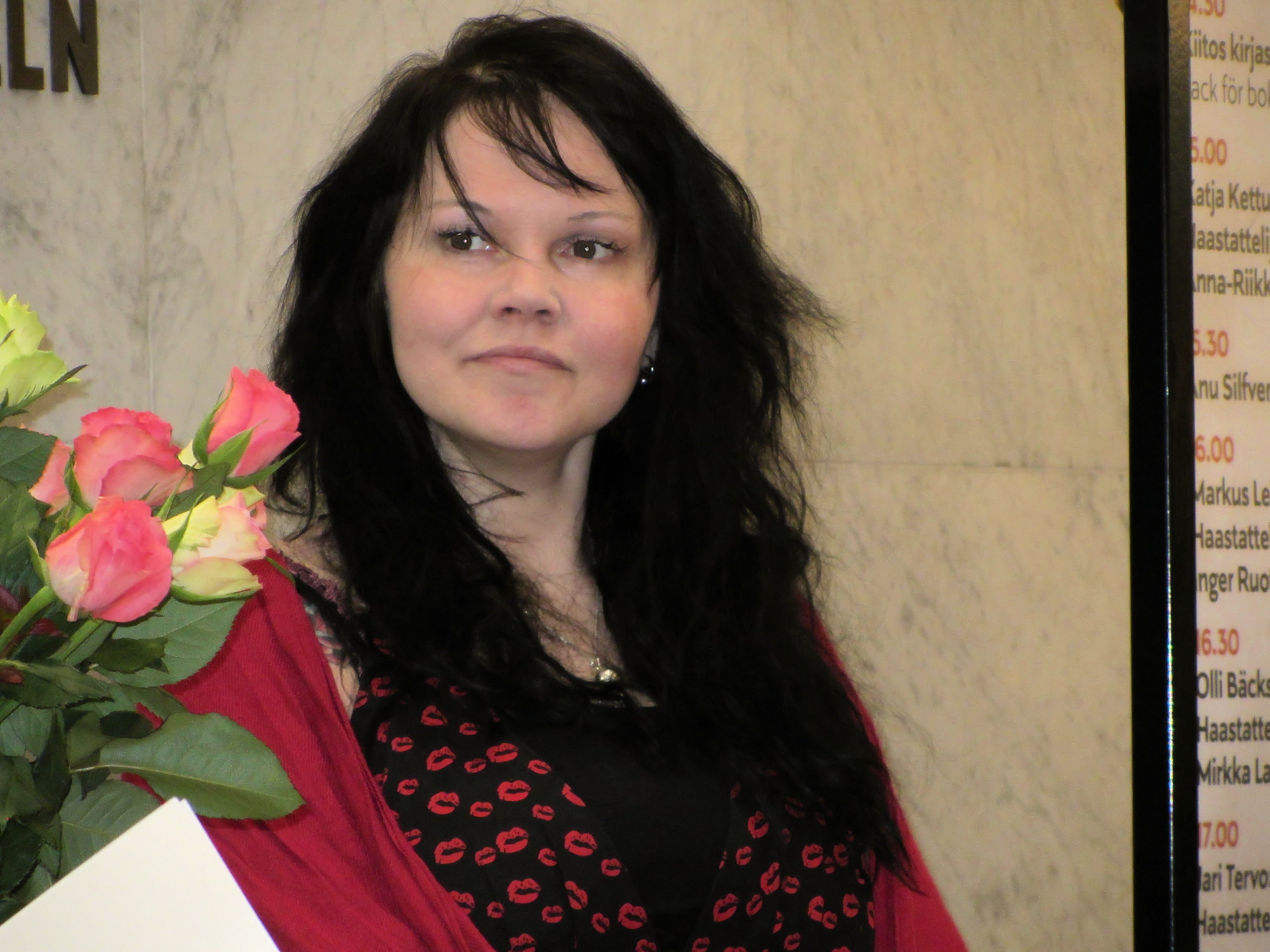 Finnish writer Katja Kettu on World Book Day in Helsinki in 2013